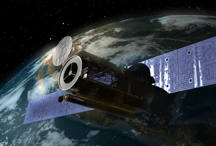 The Solar-B spacecraft will circle Earth in a sun-synchronous orbit for at least three years. This is a polar, rather than equatorial, orbit and will allow the instruments to remain in continuous sunlight for nine months of each year. Collectively, Solar-B's three science instruments -- the Solar Optical Telescope Focal Plane Package, X-ray Telescope and Extreme Ultraviolet Imaging Spectrometer -- will record how energy stored in the sun's magnetic field is released as that field rises into the sun's outer atmosphere.